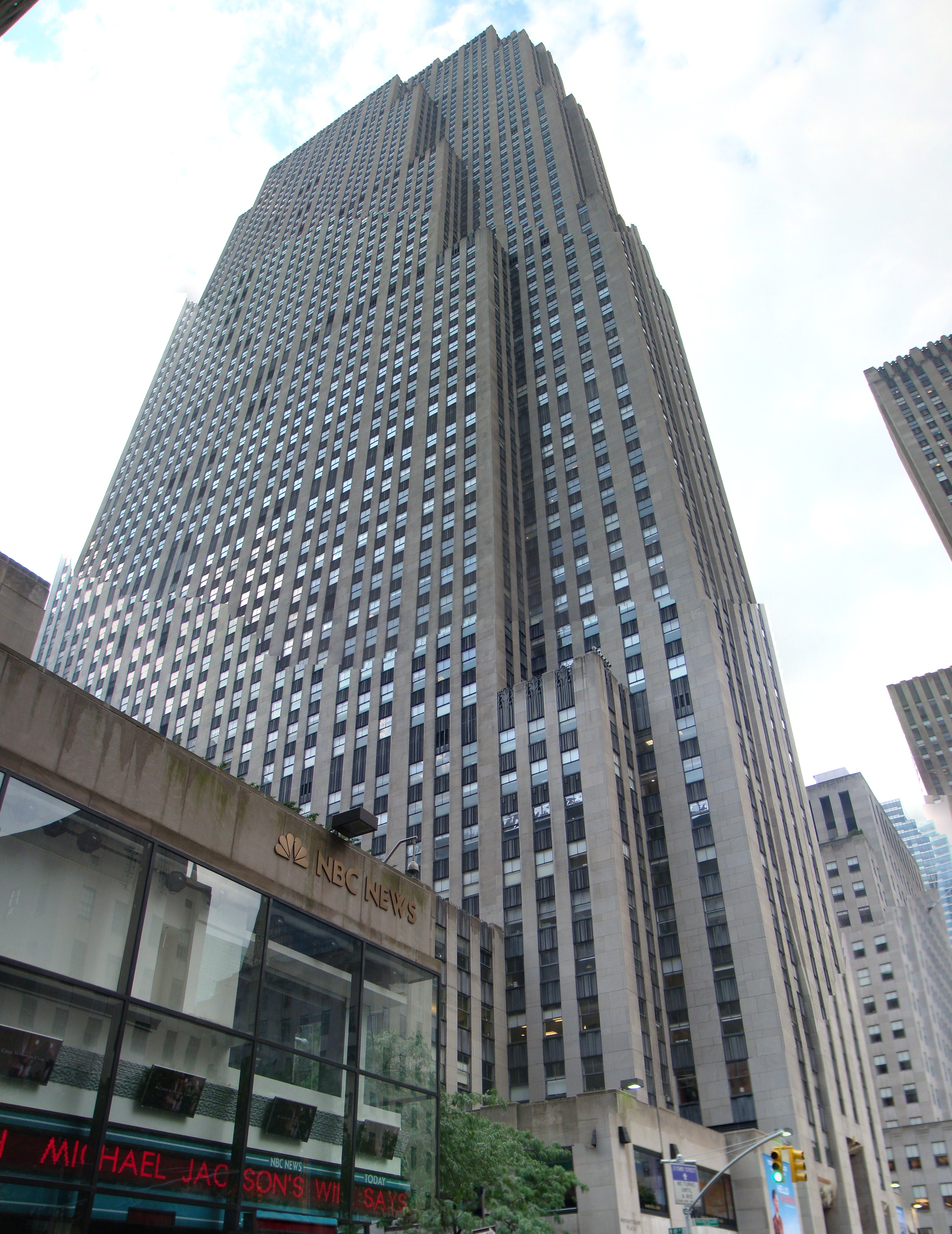 Top of the Rock (G.E. Building) (Side View)